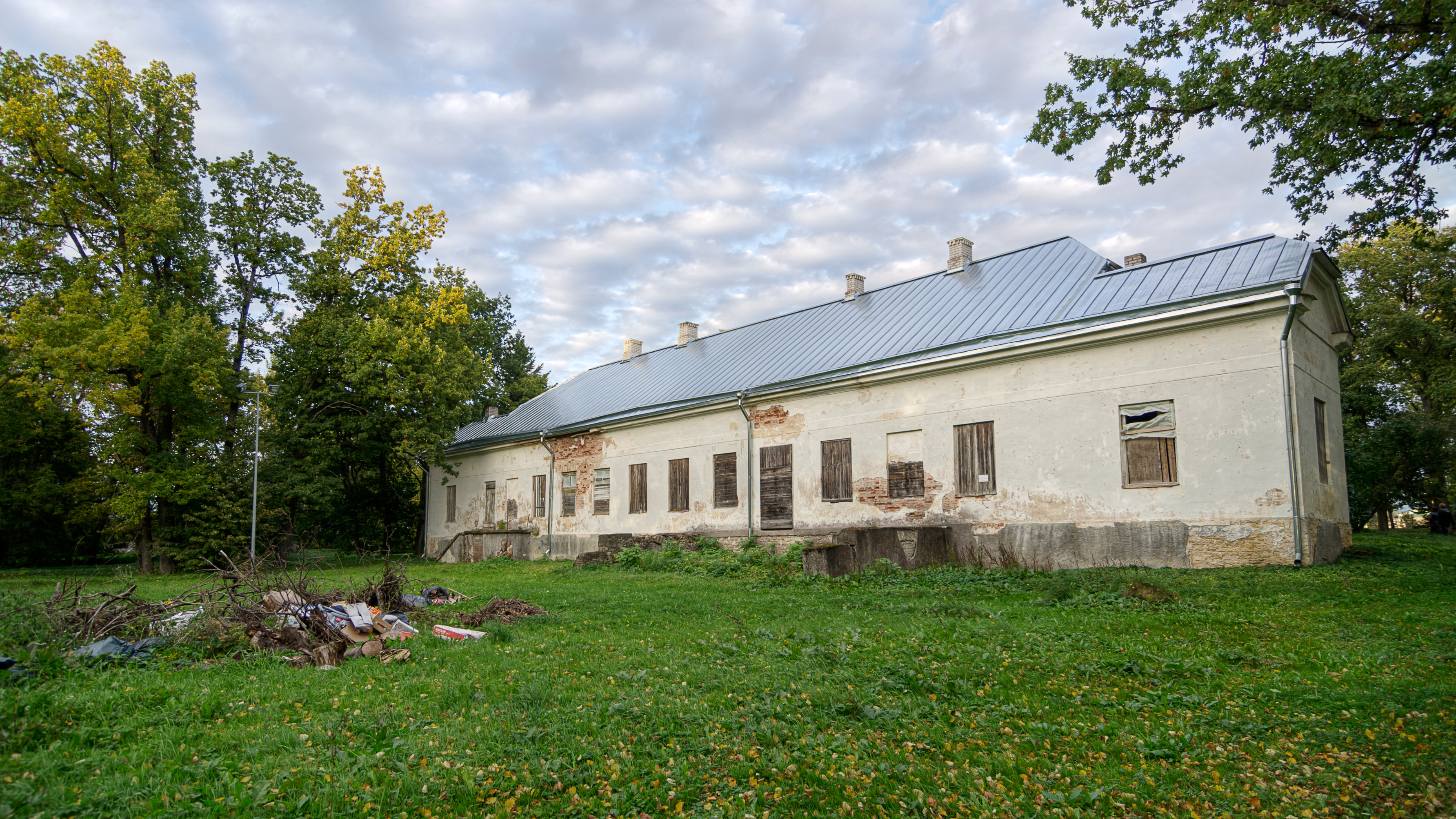 Rear view of the Kiikla manor house